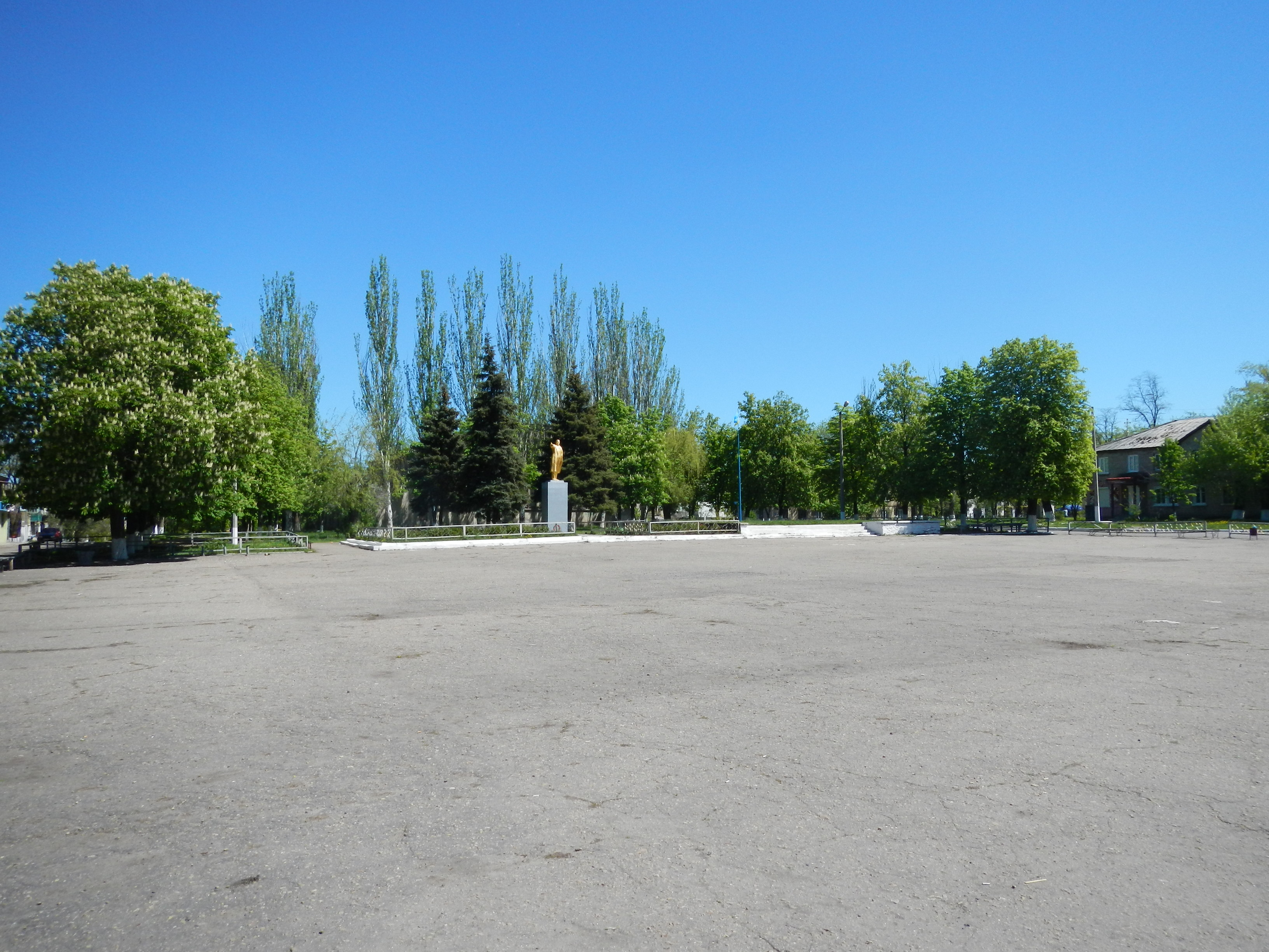 Statue of Lenin in Pryvillia, Luhansk Oblast, Ukraine.